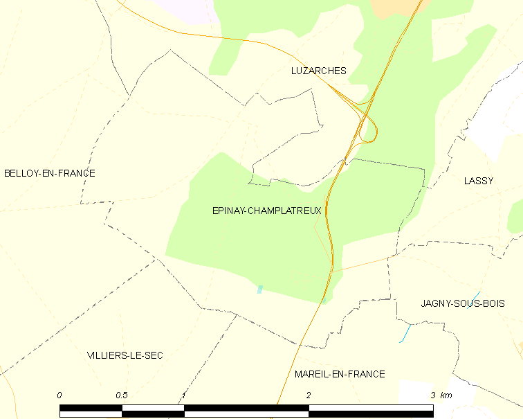 Map of French municipality Épinay-Champlâtreux